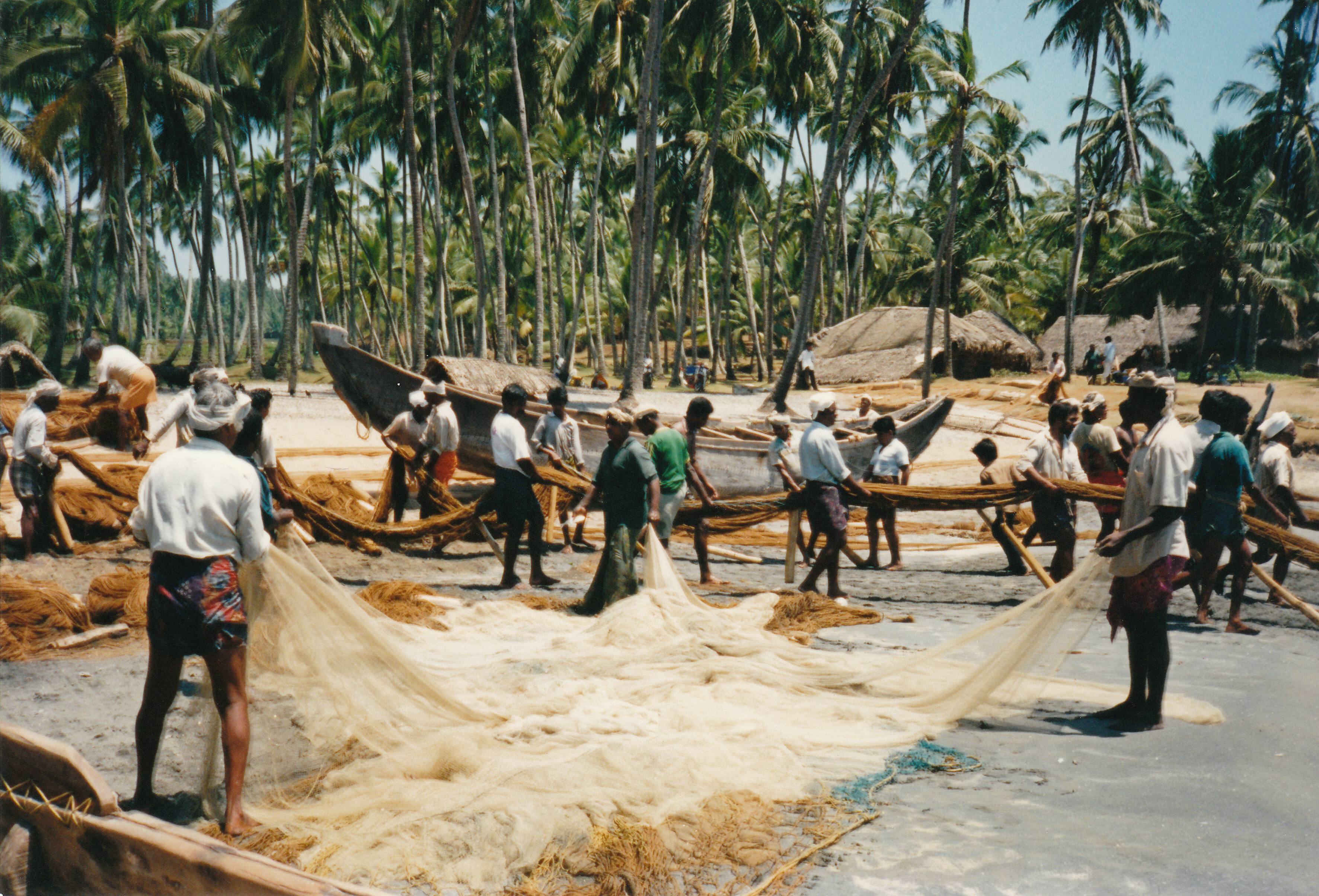 Fishermen near Varkala (Kerala)